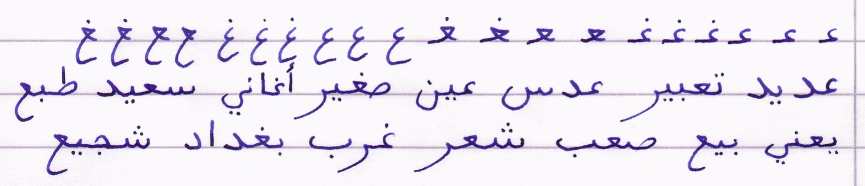 handwritten Arabic letters Ayn and Ghayn - writing exercise; written and scanned Author: Inselleben dfghjm